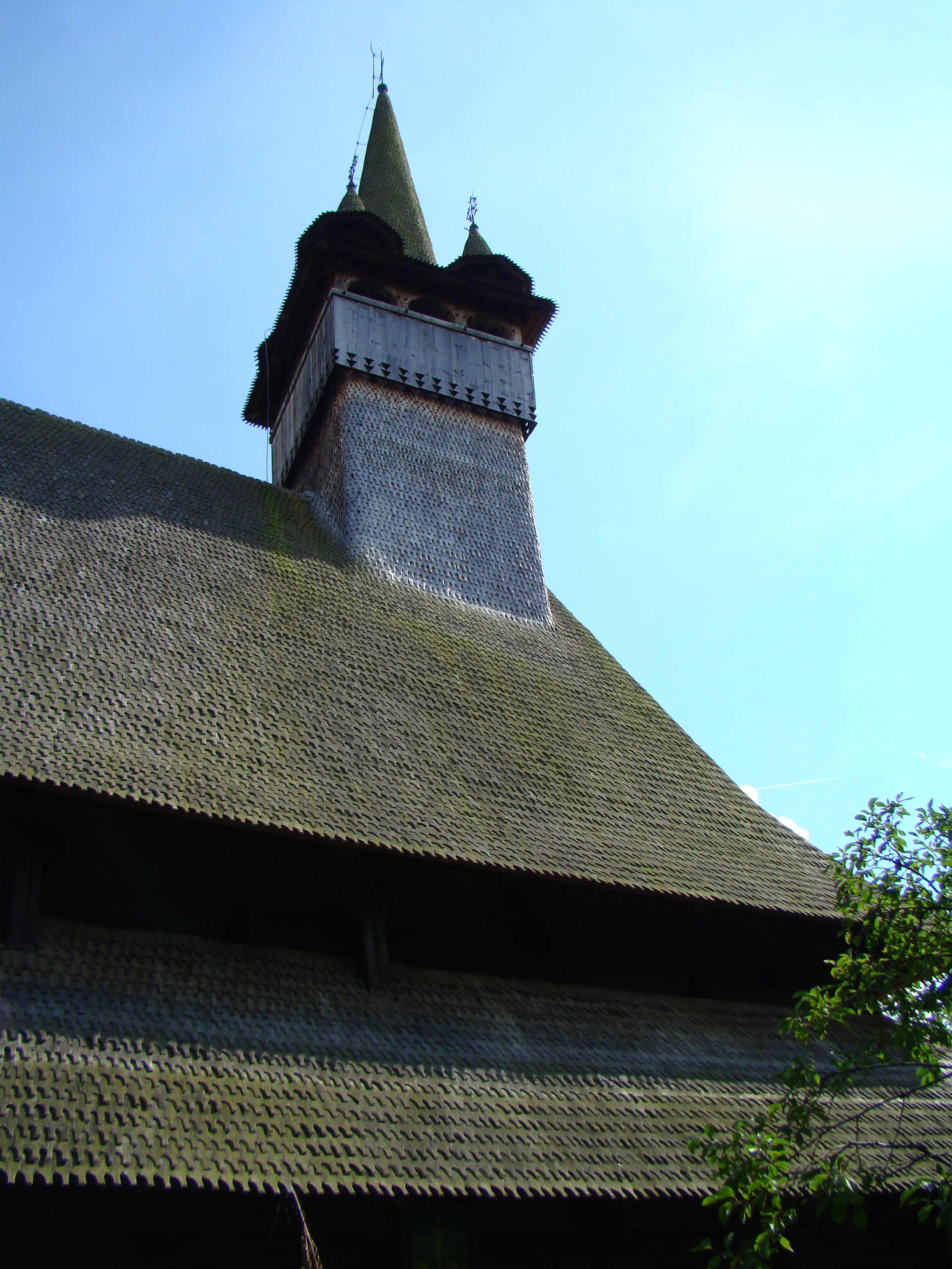 Wooden church in Budeşti Josani, Maramureş